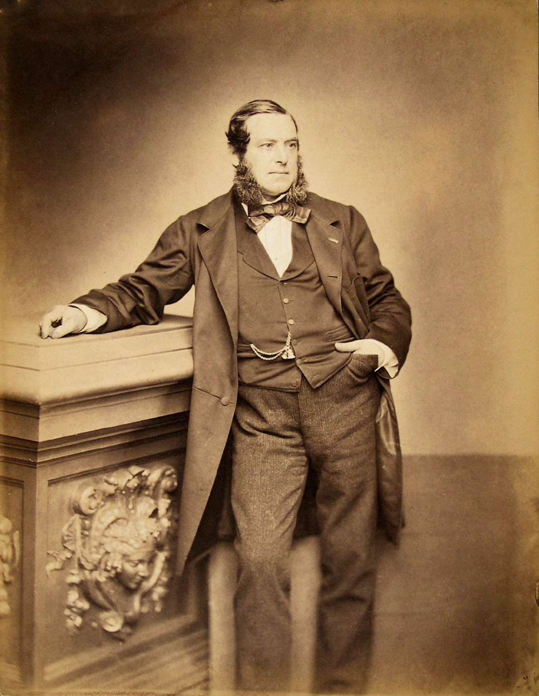 Salted paper print of Henri Rivière